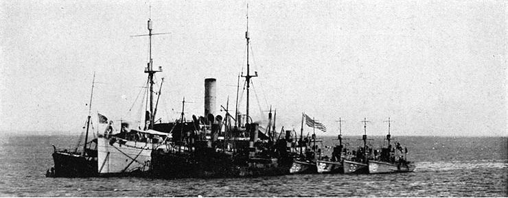 USS Panther (1898-1923) Moored in Kirkwall Harbor, Orkney Islands, while supporting the North Sea mine barrage clearance operation in 1919. She has several trawlers and submarine chasers alongside. The latter include (from left to right, in outboard group off Panther's port side: SC-48, SC-328, SC-38 and SC-181. Halftone reproduction of a photograph taken by DeLong, of USS Black Hawk, published in the cruise book "Sweeping the North Sea Mine Barrage, 1919", page 33. Donation of Chief Storekeeper Charles A. Free. U.S. Naval Historical Center Photograph.